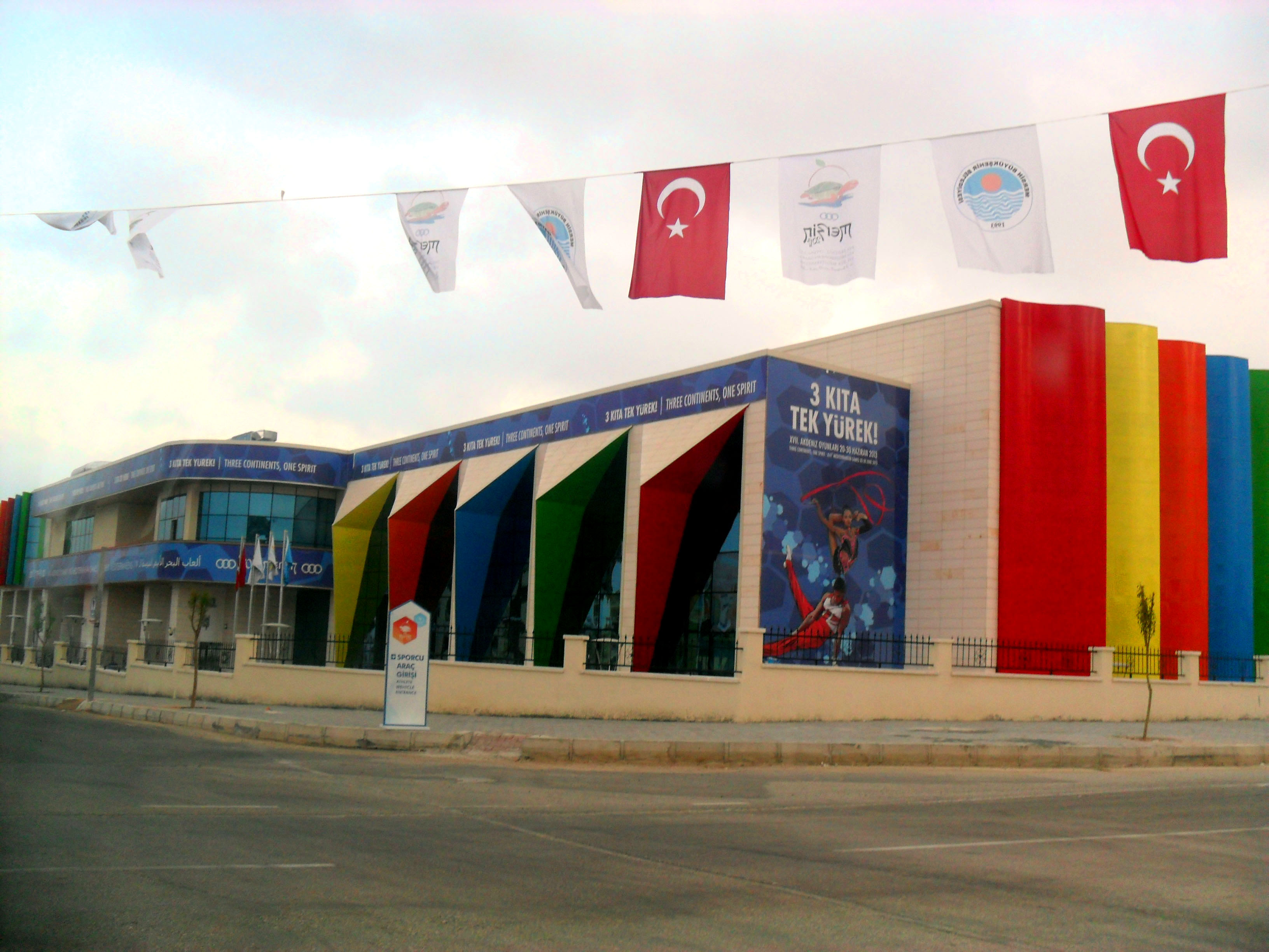 Mersin Gymnastics Hall used in 2013 Mediterranean Games